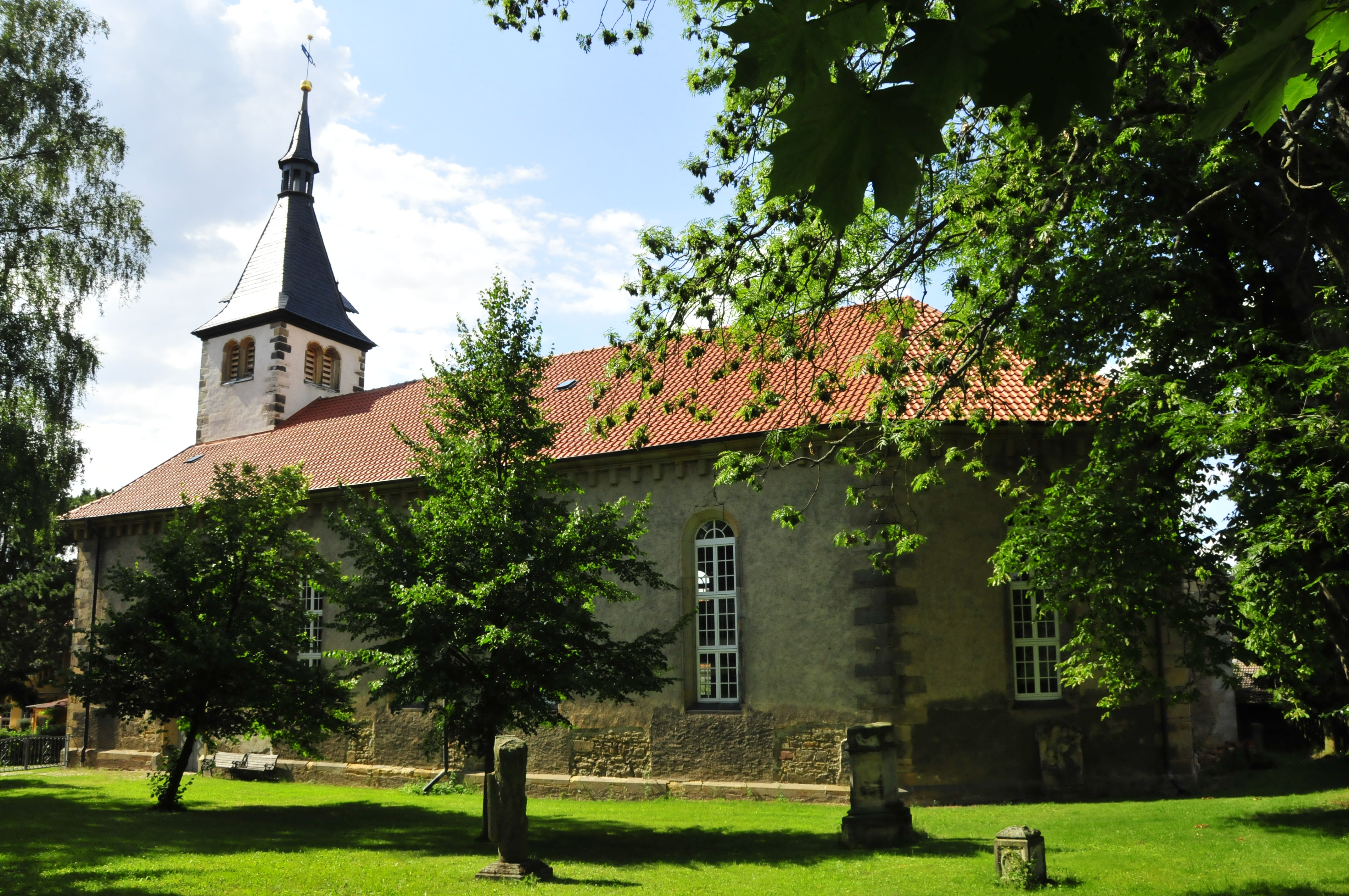 Eschenbergen, church